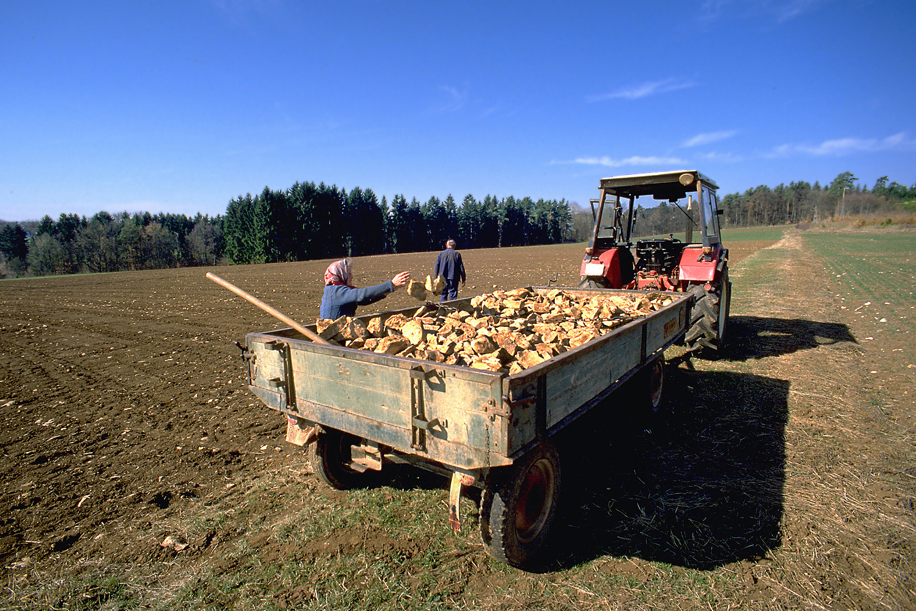 Field in Westerheim Swabian Alb in springtime. The field area is huge as it is normal after land consolidation. The agricultural road is broad, there is no unwanted vegetation, the area is optimal for all kind of operations. The agricultural trailer’s heavy load of lime rocks shows how stony the field obviously has been! It is obvious, the old couple and their tools belong to a generation of peasantry, which will gradually fade away…